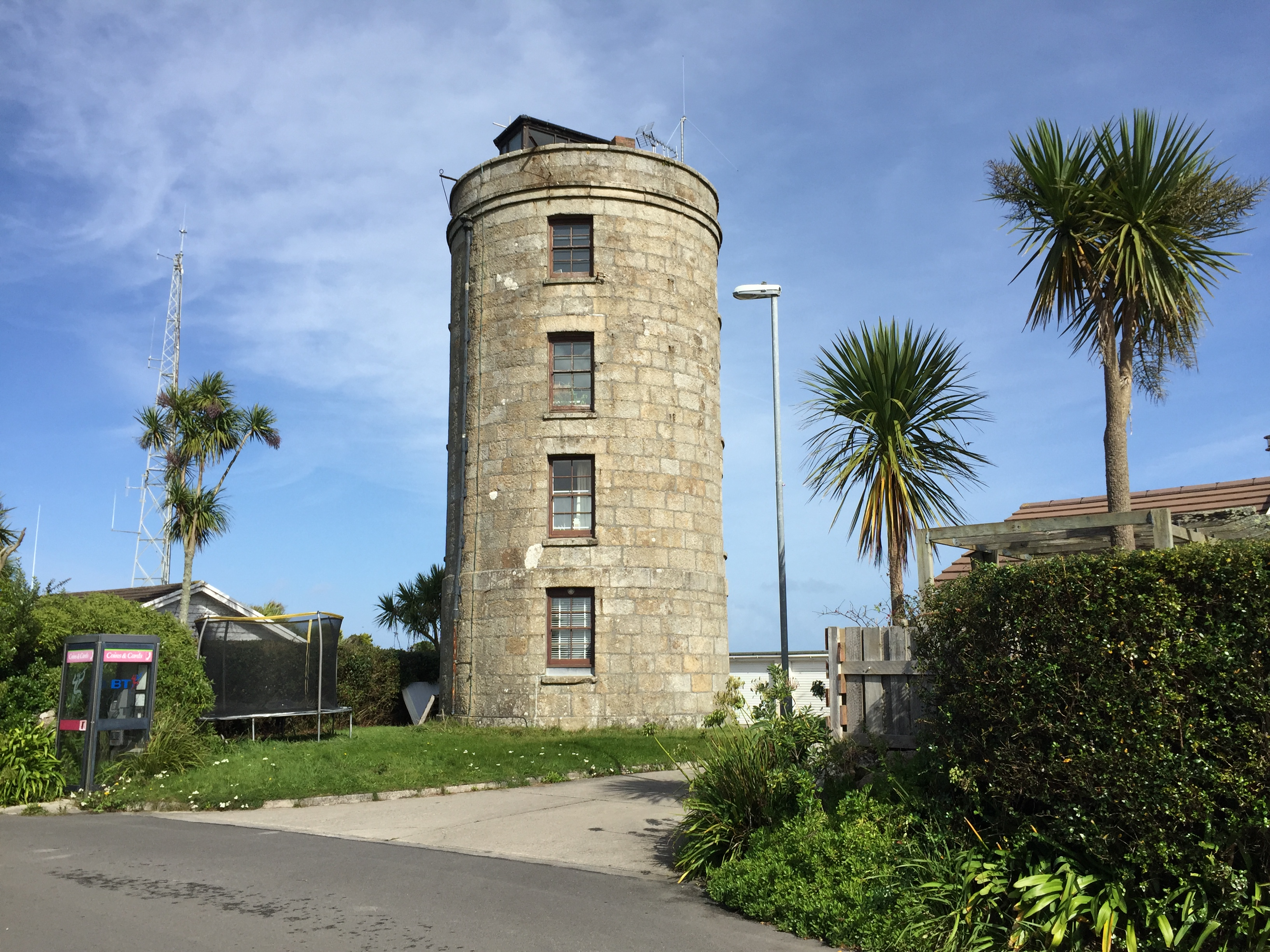 A semaphore signal station of 1814, with early-C20 telegraph house added to the roof. The tower was built for the Admiralty by Messrs. Hambledon and the telegraph house by Arthur Carkeep.